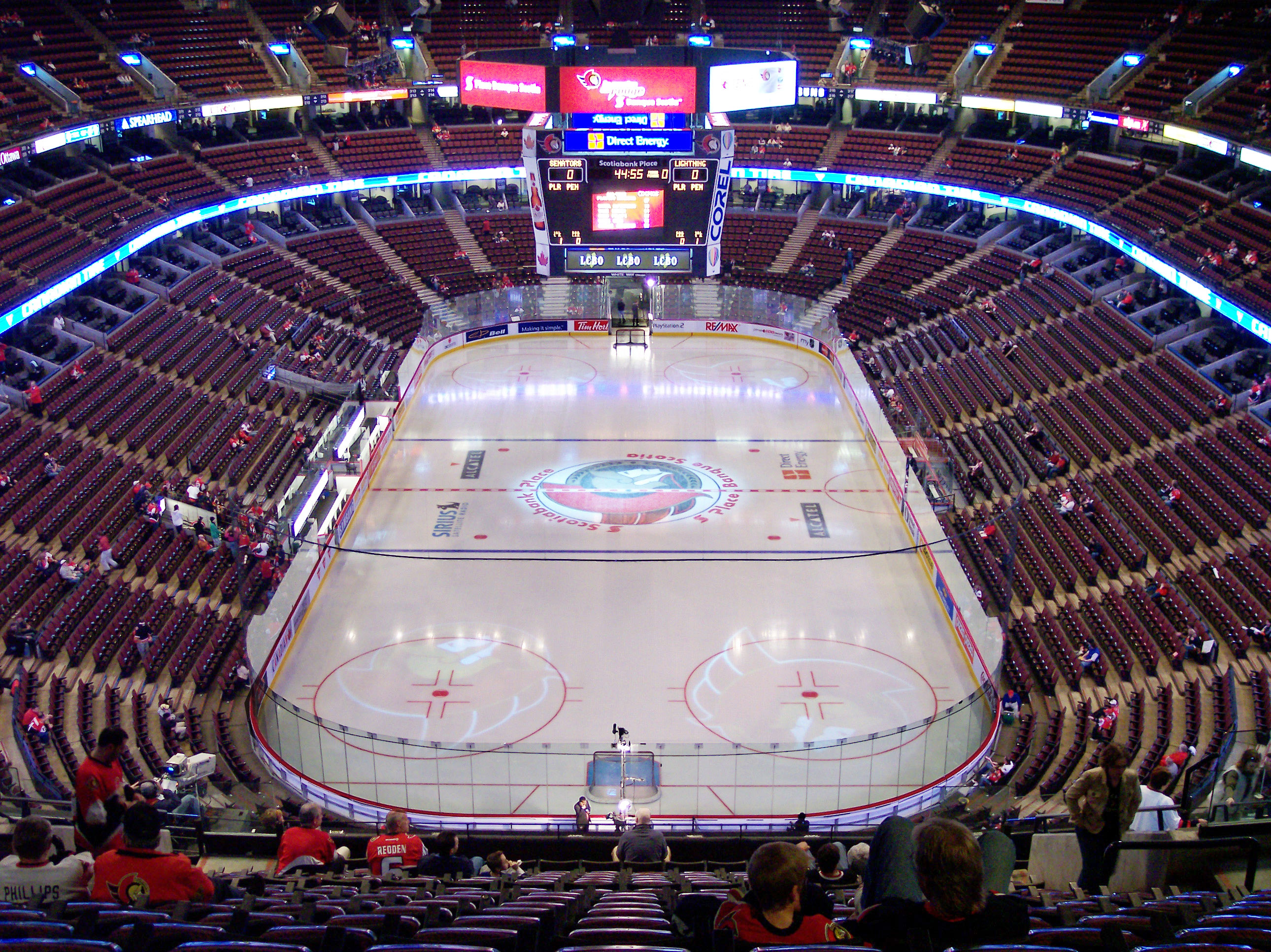 Scotiabank Place, home of the Ottawa Senators.